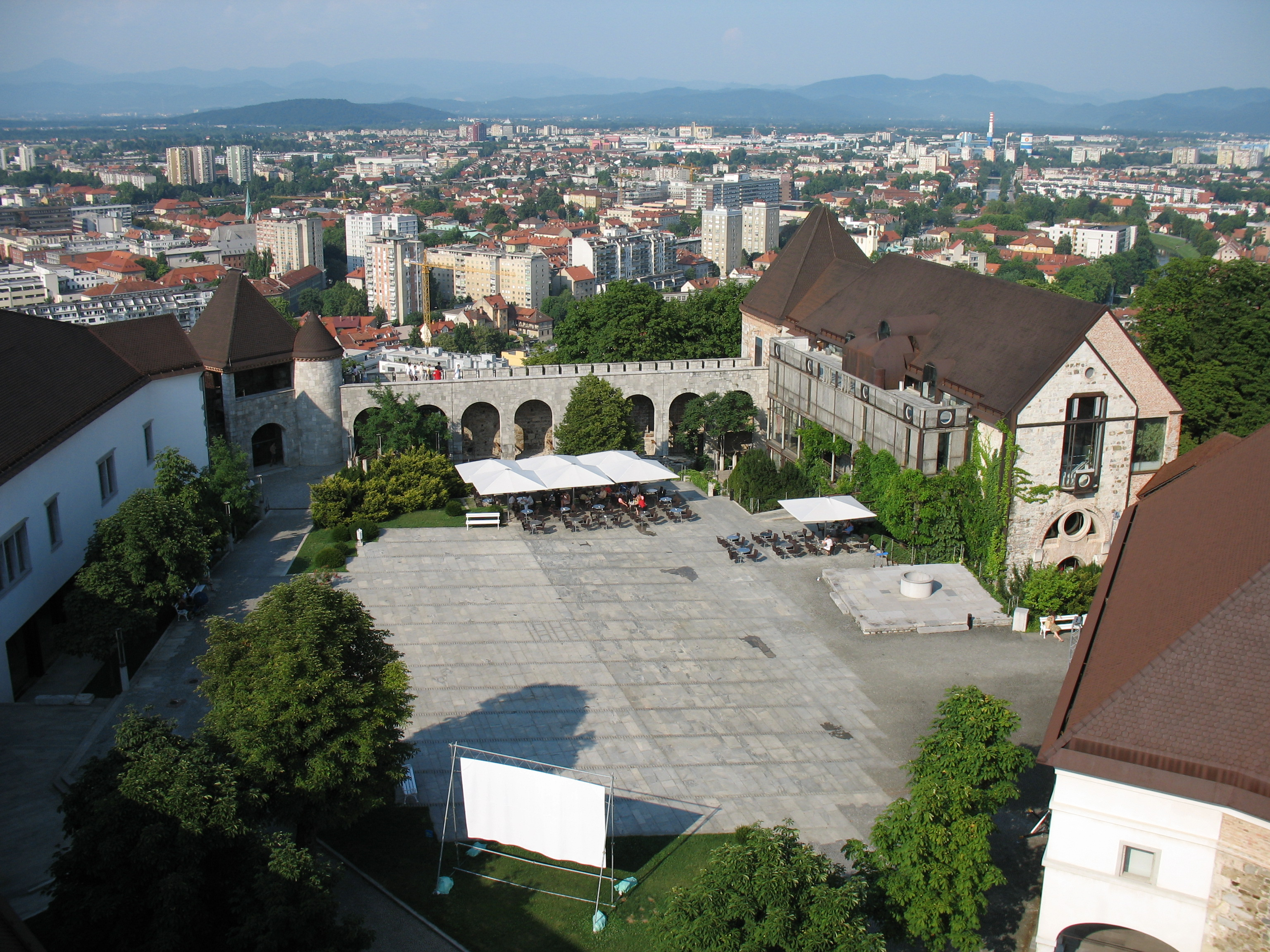 The courtyard of the Ljubljana Castle . Ljubljana, Slovenia